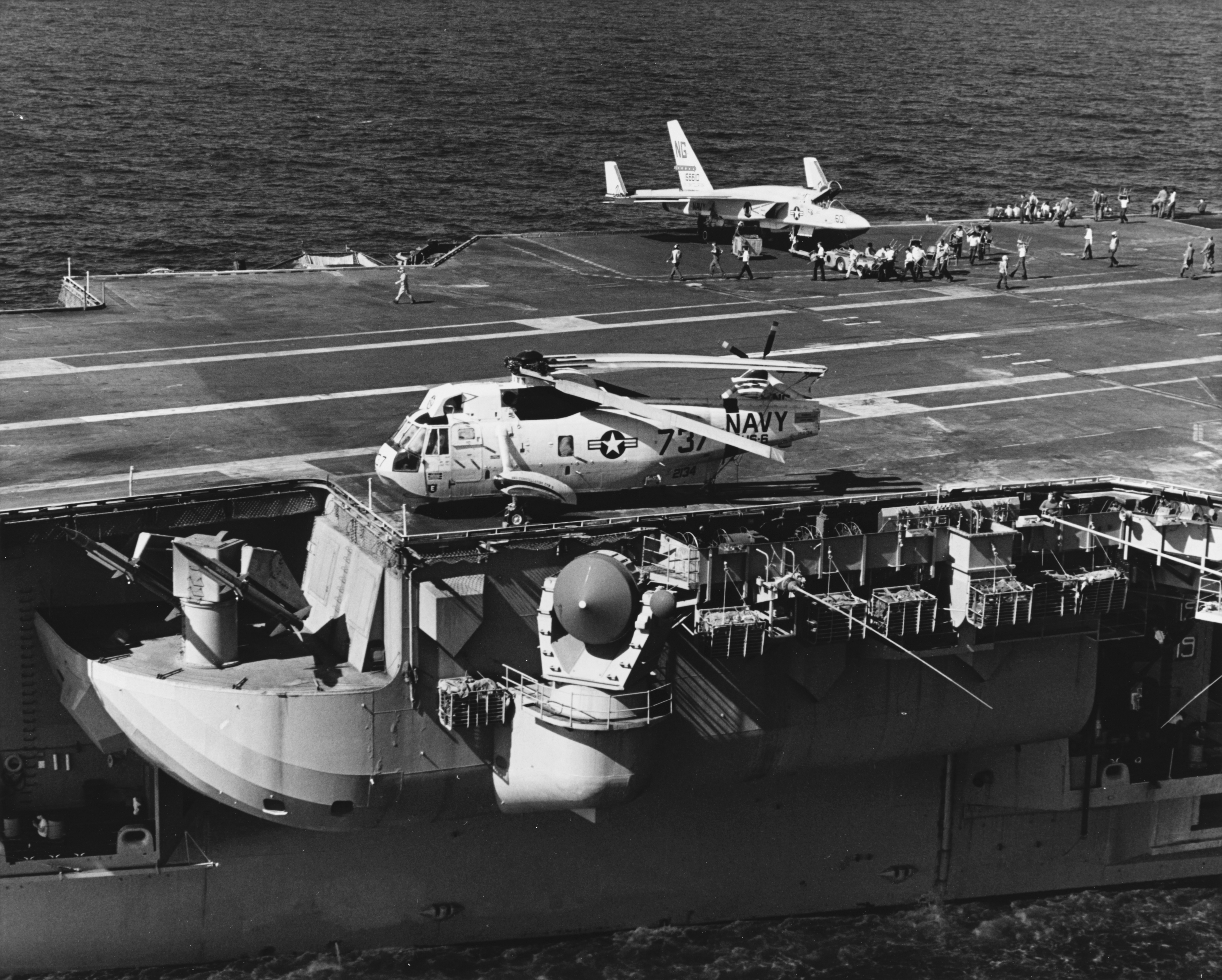 View of the starboard quarter "Terrier" guided-missile installation of the U.S. Navy aircraft carrier USS Constellation (CVA-64), including a Mark 10 launcher with two missiles and an SPG-55A guidanace radar. The photo was taken in the Indian Ocean during Operation "Midlink ´74" on 16 November 1974.Aircraft on Constellation´s flight deck include a Sikorsky SH-3A Sea King (BuNo 152134) of Helicopter Antisubmarine Squadron 6 (HS-6) and a North American RA-5C Vigilante (BuNo 156610) of Reconnaissance Attack Squadron 5 (RVAH-5). Both Squadrons were assigned to Carrier Air Wing 9 aboard the Constellation for a deployment to the Western Pacific and the Indian Ocean from 21 June to 23 December 1974. Many of the crewmen on the flight deck are carrying chairs.